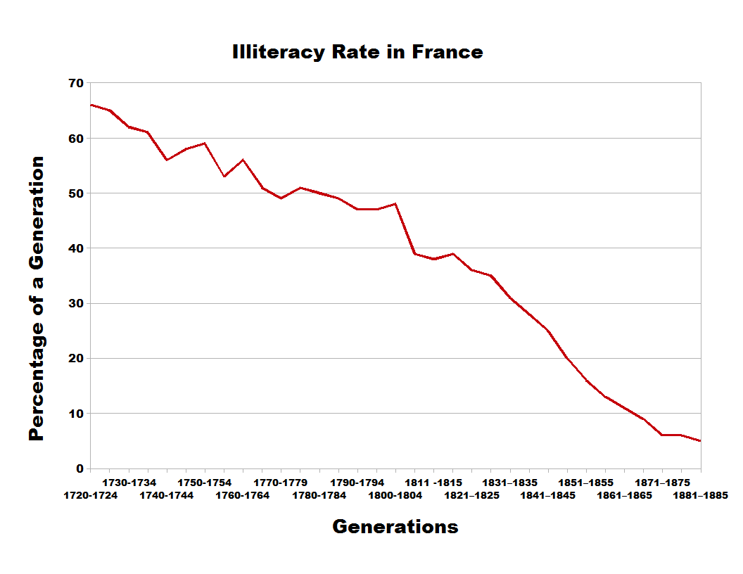 Evolution of the illiteracy rate in France as a function of 5-year long generations, born from 1720 to 1885. Data from J. Houdailles et A. Blum, "L'alphabétisation au XVIIIe et XIXeme siècle. L'illusion parisienne", Population, n°6, 1985, based on a 1985 INED survey and on the 1901 census.